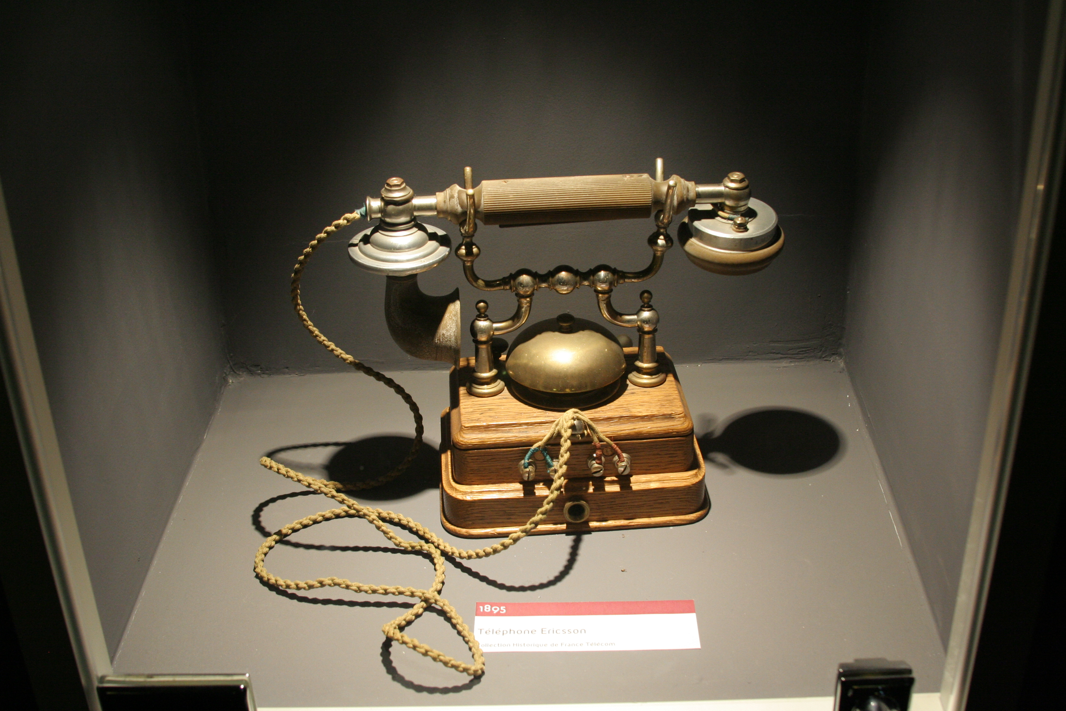 Ericsson Phone made for France Telecom on 1895.